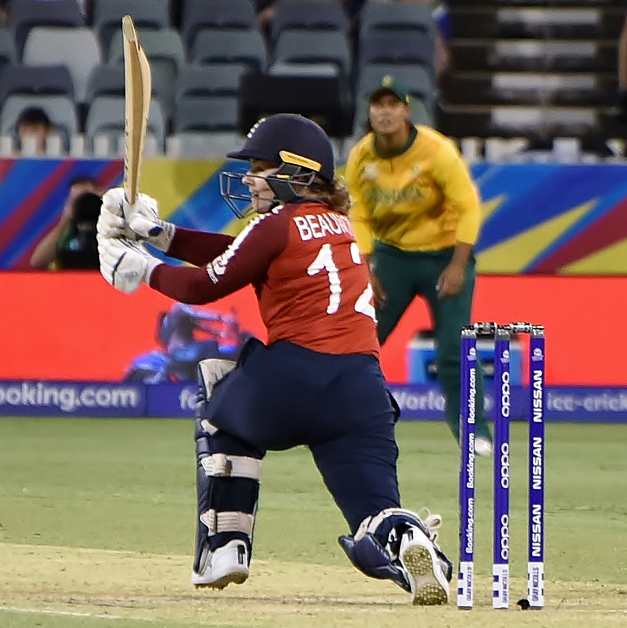 Tammy Beaumont batting for England against South Africa during their 2020 ICC Women's T20 World Cup match at the WACA Ground in Perth, Australia